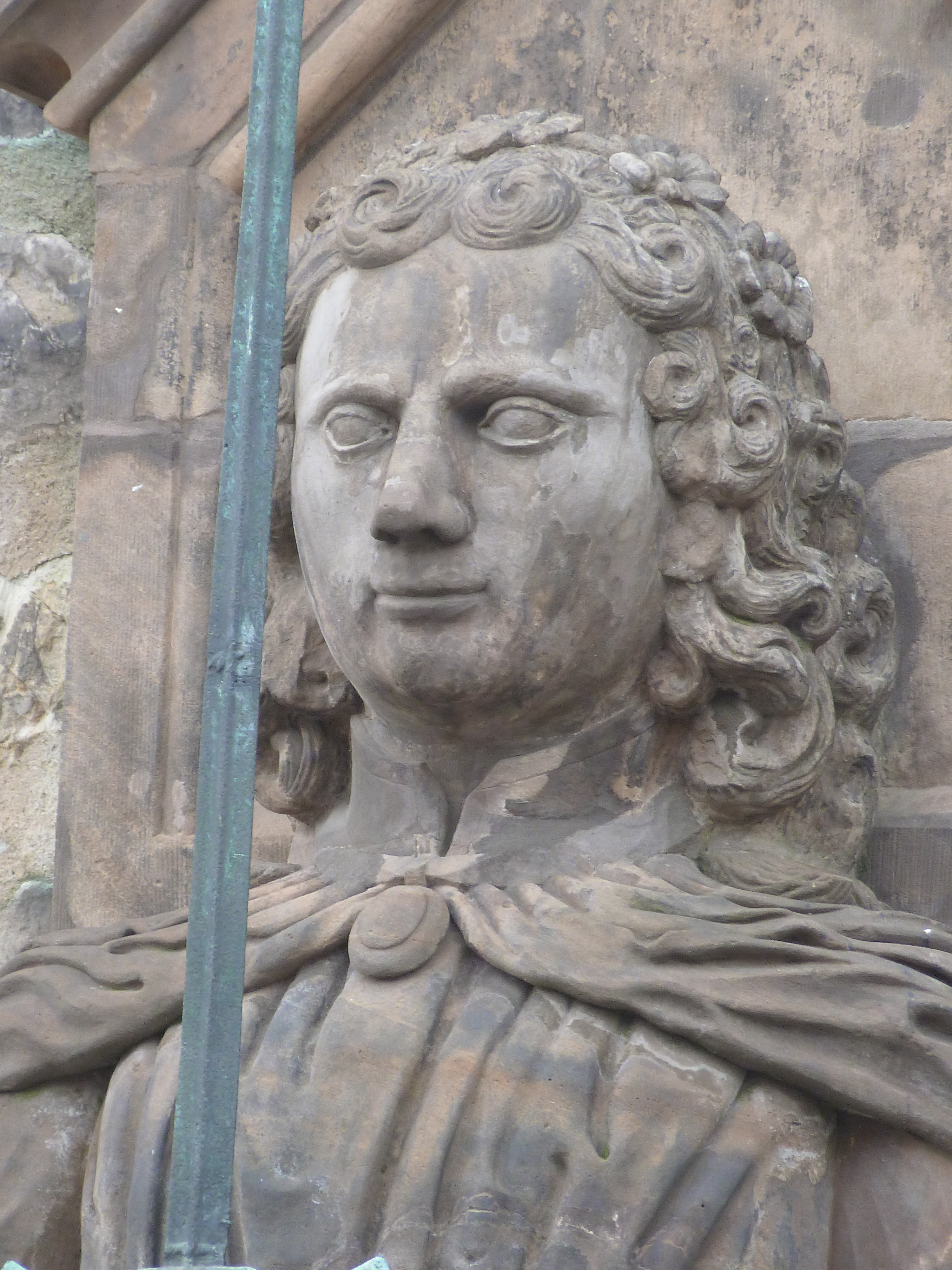 Roland statue at the Red Tower in Halle (Saale)